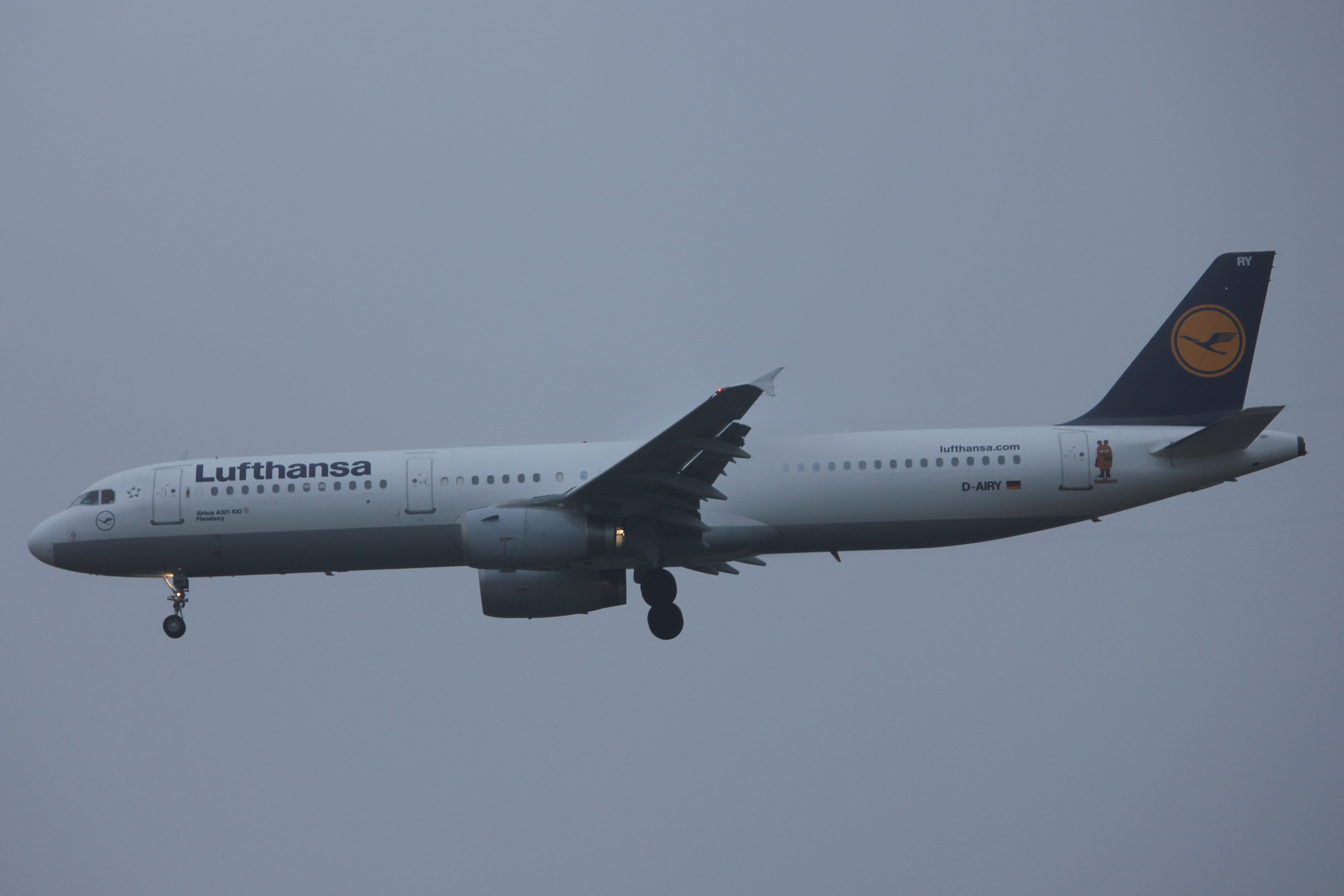 An A321 of Lufthansa